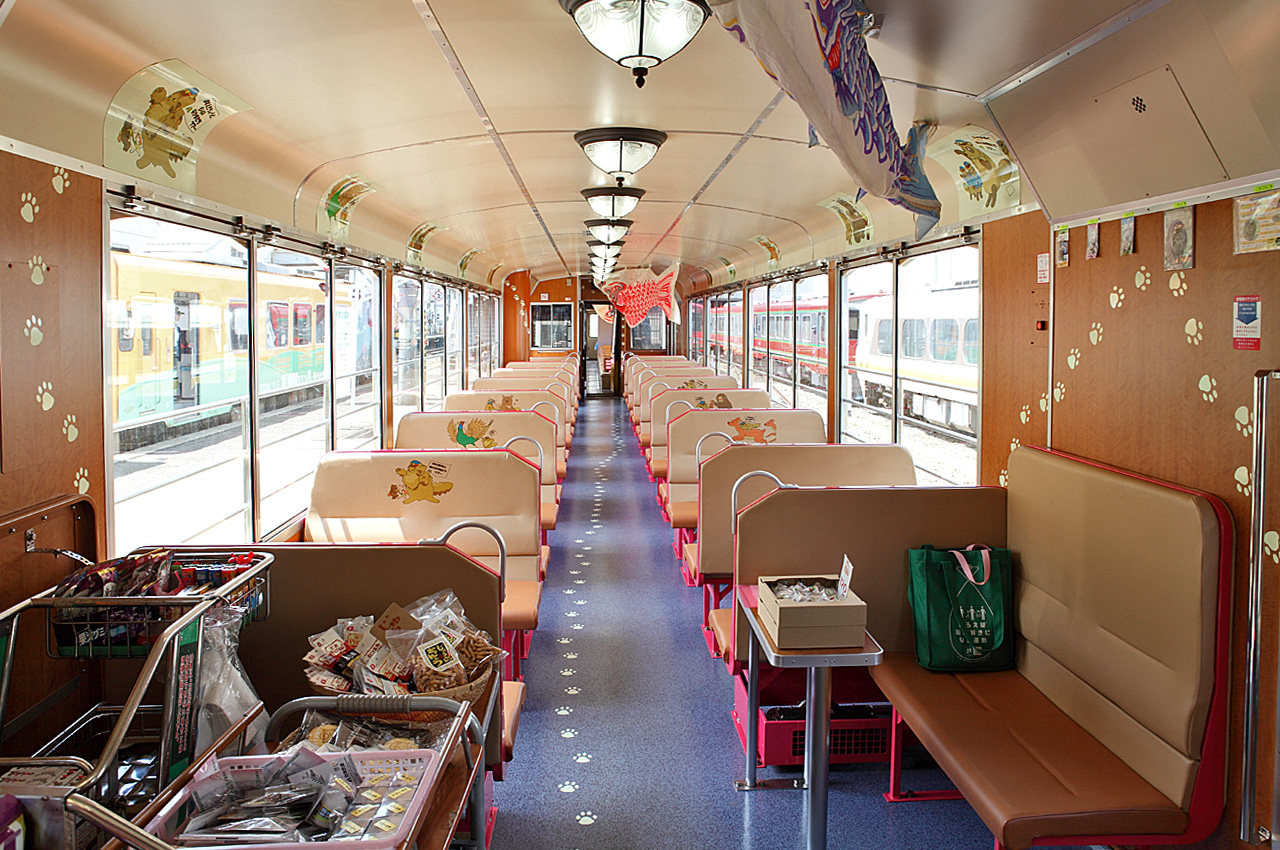 Interior of Aizu Railway AT-351